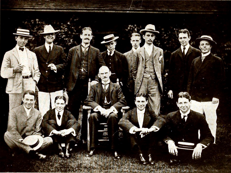 Back row: Palmer Presbrey, K.Norton, A.Godman, C.Hayden; Front Row: Holcombe Ward, H.L.Doherty, W.H.Collins, R.F.Doherty, Dwight F. Davis. Group taken at Nahant, near Boston, soon after arrival.